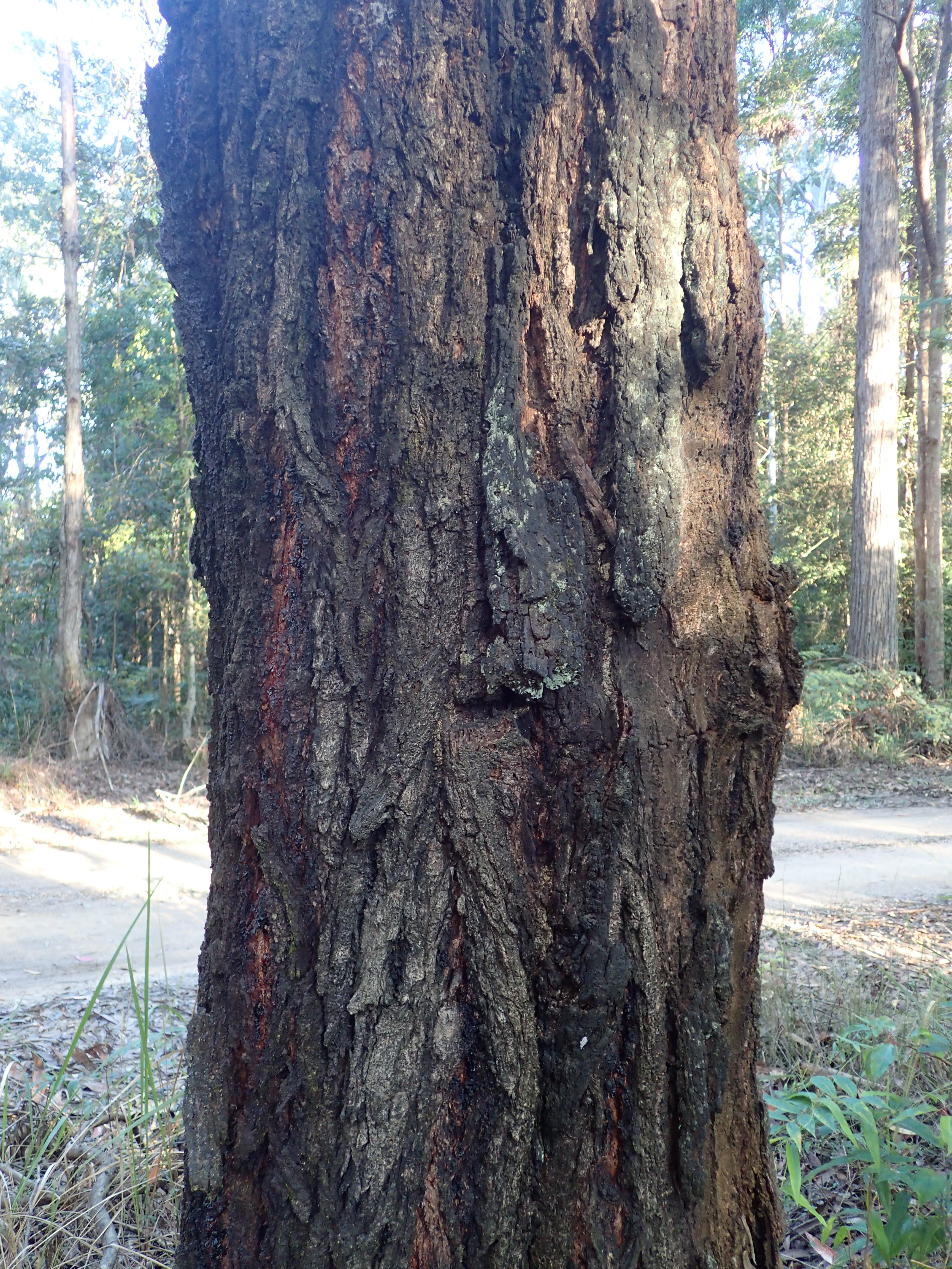 Bark of Eucalyptus fusiformis along the Burma Road in the Bongil Bongil National Park